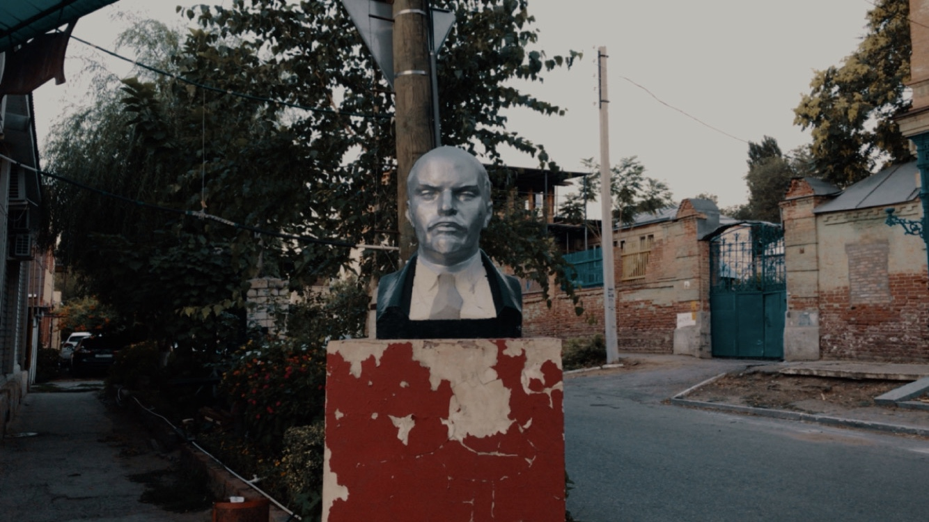 Lenin Statue on Kazanskaya/Volzhskaya Streets in Astrakhan